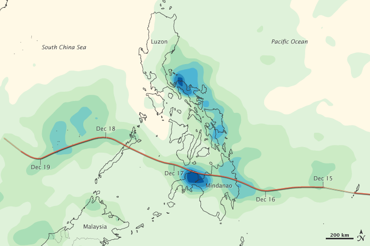 Tropical Storm Washi devastated the Philippines on December 16 and 17, 2011. The storm was not powerful in the traditional sense—it’s winds never surpassed 55 knots (100 kilometers per hour or 63 miles per hour) and it lacked the organization of an intense typhoon or hurricane. Nonetheless, Washi unleashed extremely heavy rain on northwest Mindanao,. and the resulting floods left hundreds dead or missing. This image shows rainfall between December 15 and midday on December 19. Dark blue spots indicate areas of extreme rain, and the largest area is in northwest Mindanao. The image was made with data from the Multisatellite Precipitation Analysis, which combines measurements from many satellites and calibrates them with rainfall data from the Tropical Rainfall Measuring Mission (TRMM) satellite. Most of the rain fell on Friday, December 16. The rain rushed down mountain slopes and converged on coastal communities overnight, while people were sleeping. The ensuing flash floods left 957 dead and 1,582 injured as of December 20, reported the National Disaster Risk Reduction and Management Council. Most of the fatalities came in Cagayan De Oro and Iligan City. Nearly 340,000 people have been affected by the disaster.